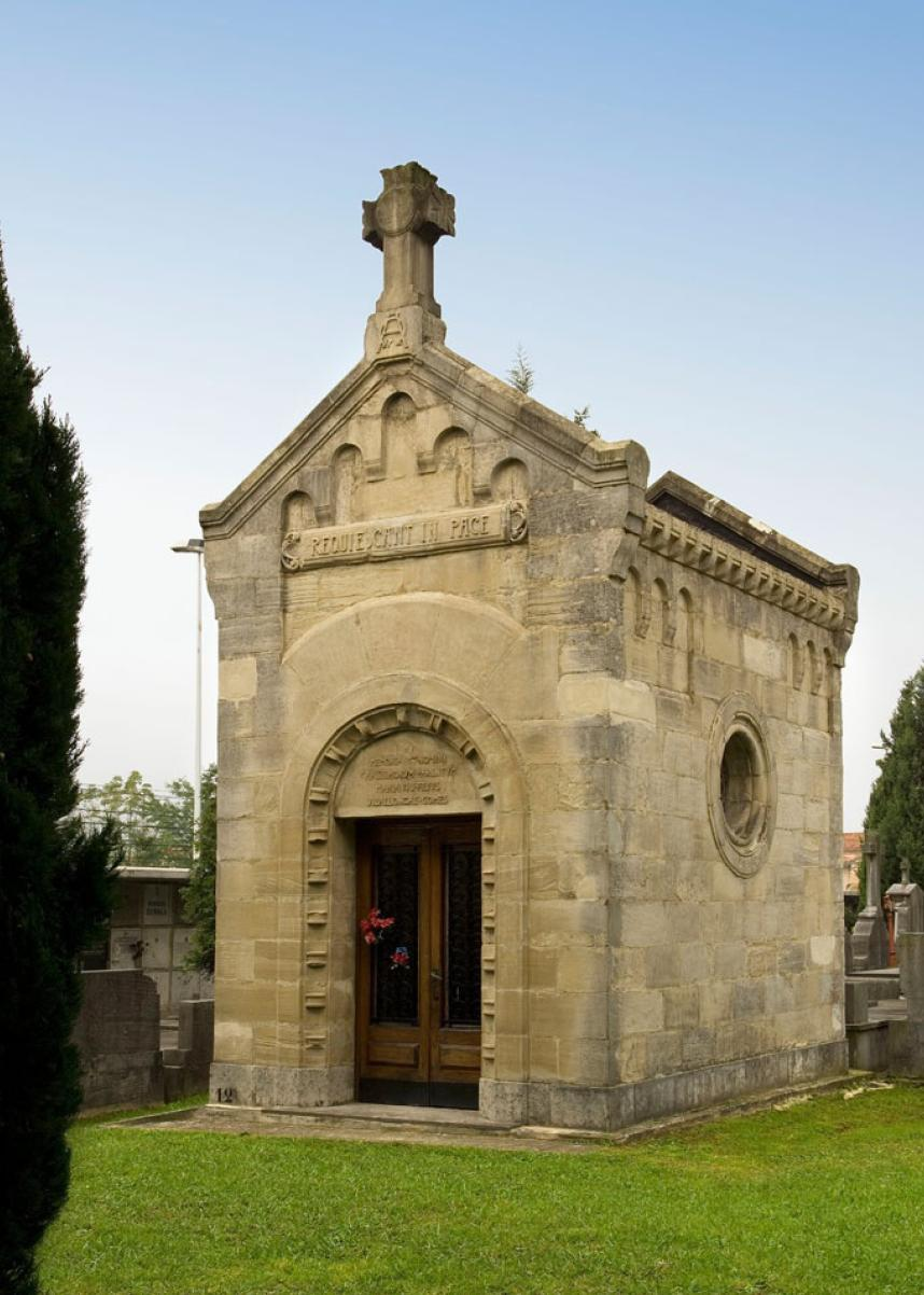 Villalonga Chapel, at Bilbao Cemetery, where is the burial of Blessed Rafaela Ybarra; built ca. 1890-1900